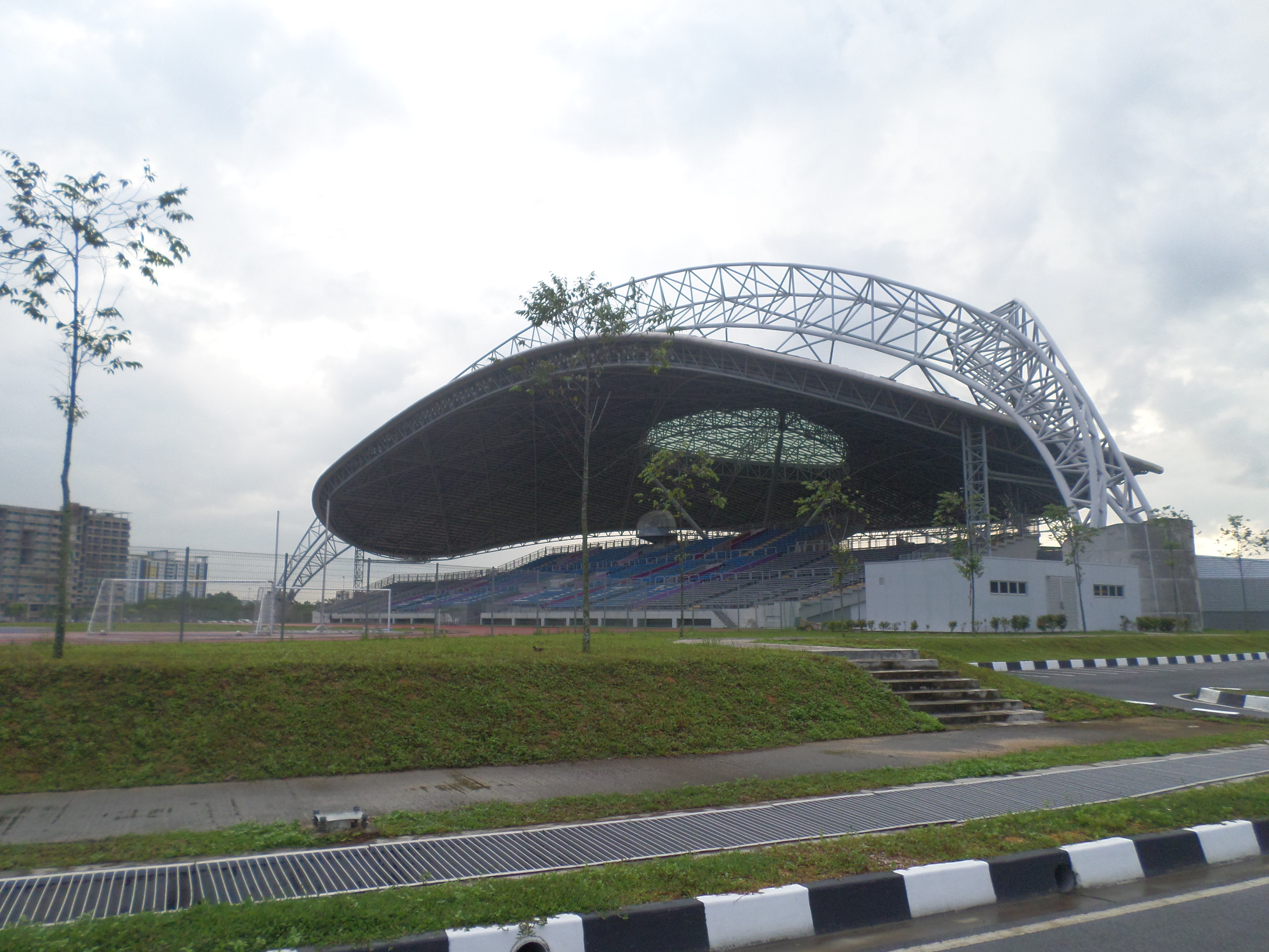 EduCity Stadium, EduCity Sports Complex, EduCity, Iskandar Puteri, Johor Bahru, Johor, Malaysia